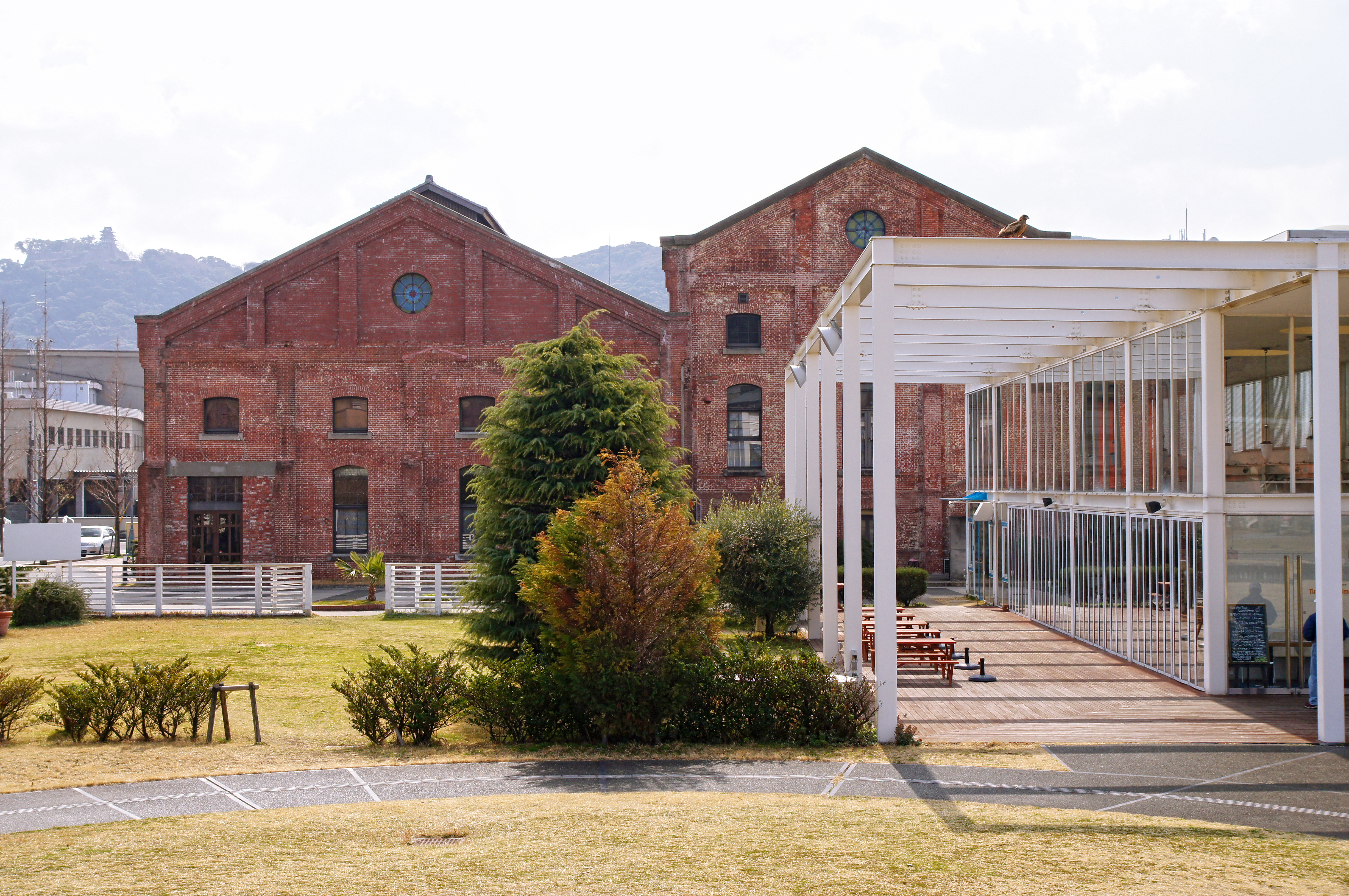 Sumoto Civic Square in Sumoto, Hyogo prefecture, Japan.